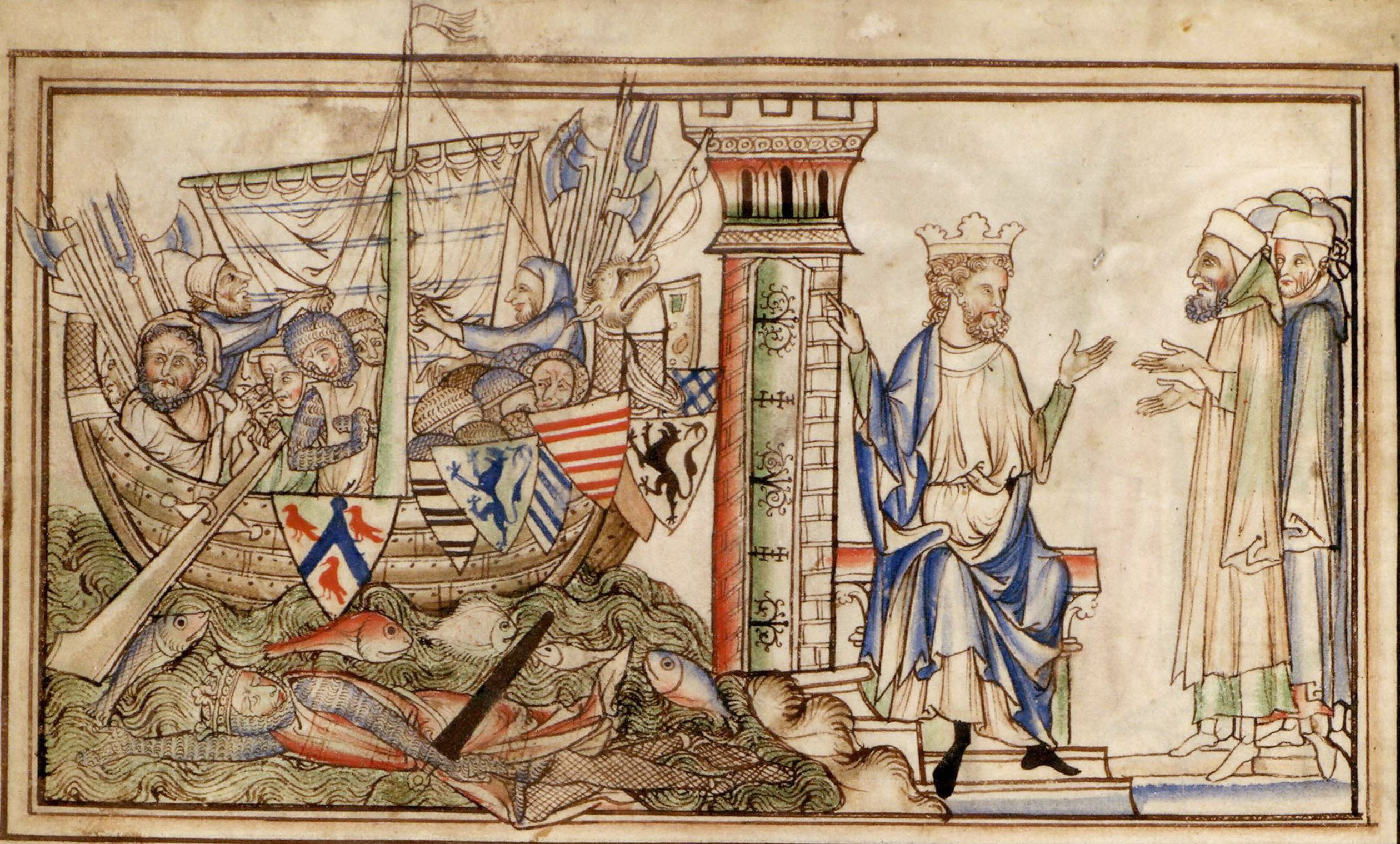 The Return of Earl Godwine and his sons to the court of Edward the Confessor, from a 13th-century MS, Cambridge University MS EE.3.59.